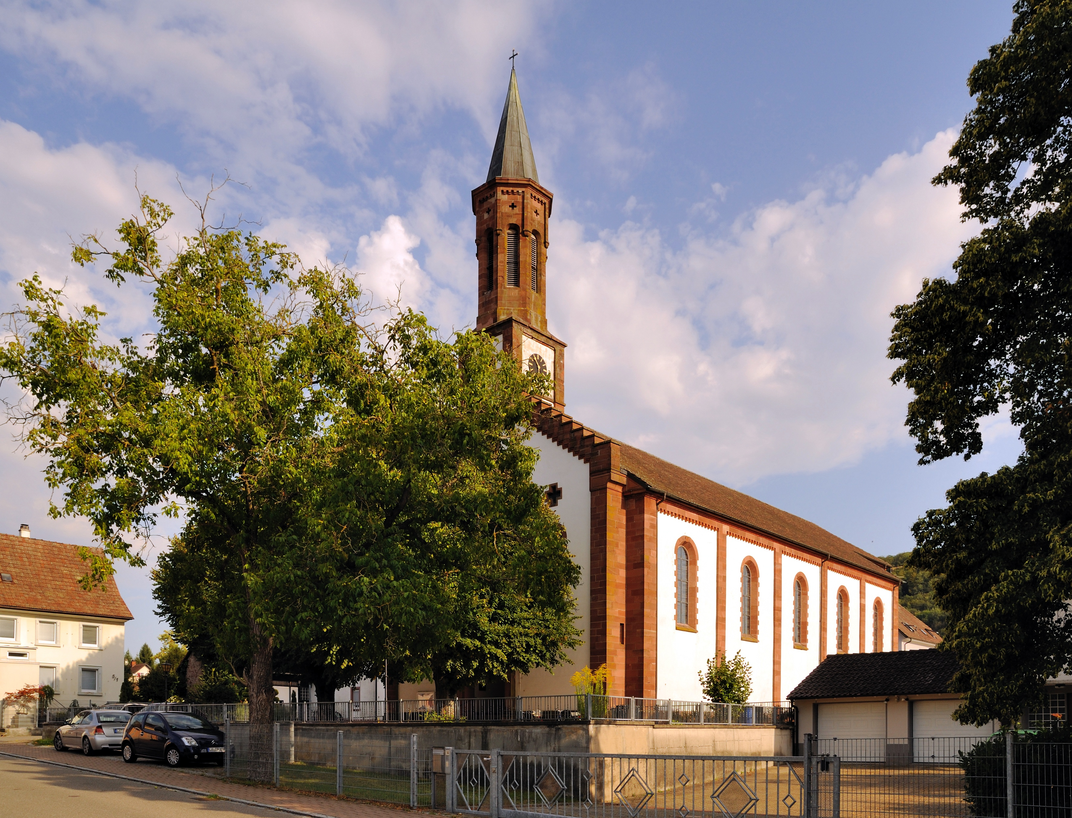 Steinen-Höllstein: Catholic Church (Church of the Immaculate Conception)